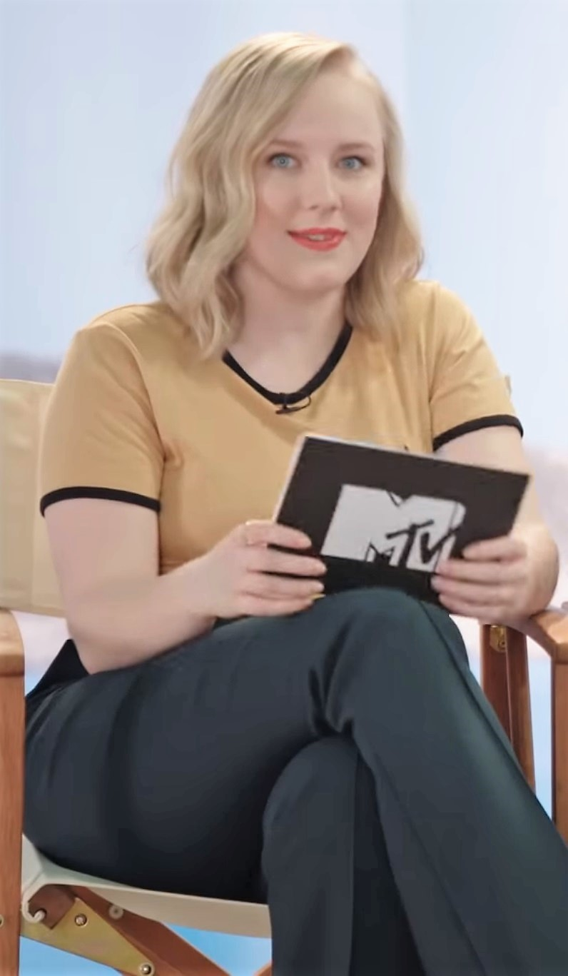 Mamma Mia! Here We Go Again Cast Play Never Have I Ever: ABBA Edition | MTV Movies Welsh actress Alexa Davies. Who’s been FER NANDOs? And who’s found themselves looking for a MAN AFTER MIDNIGHT? Lily James, Jeremy Irvine and the cast of Mamma Mia 2 reveal all as they play a hilarious game of NEVER HAVE I EVER: ABBA Edition! Subscribe to MTV for more great videos and exclusives! Get social with MTV @ 💋 Twitter: 🍺 Instagram: 💅 Tumblr: 🍿 Facebook: 🎷 Official